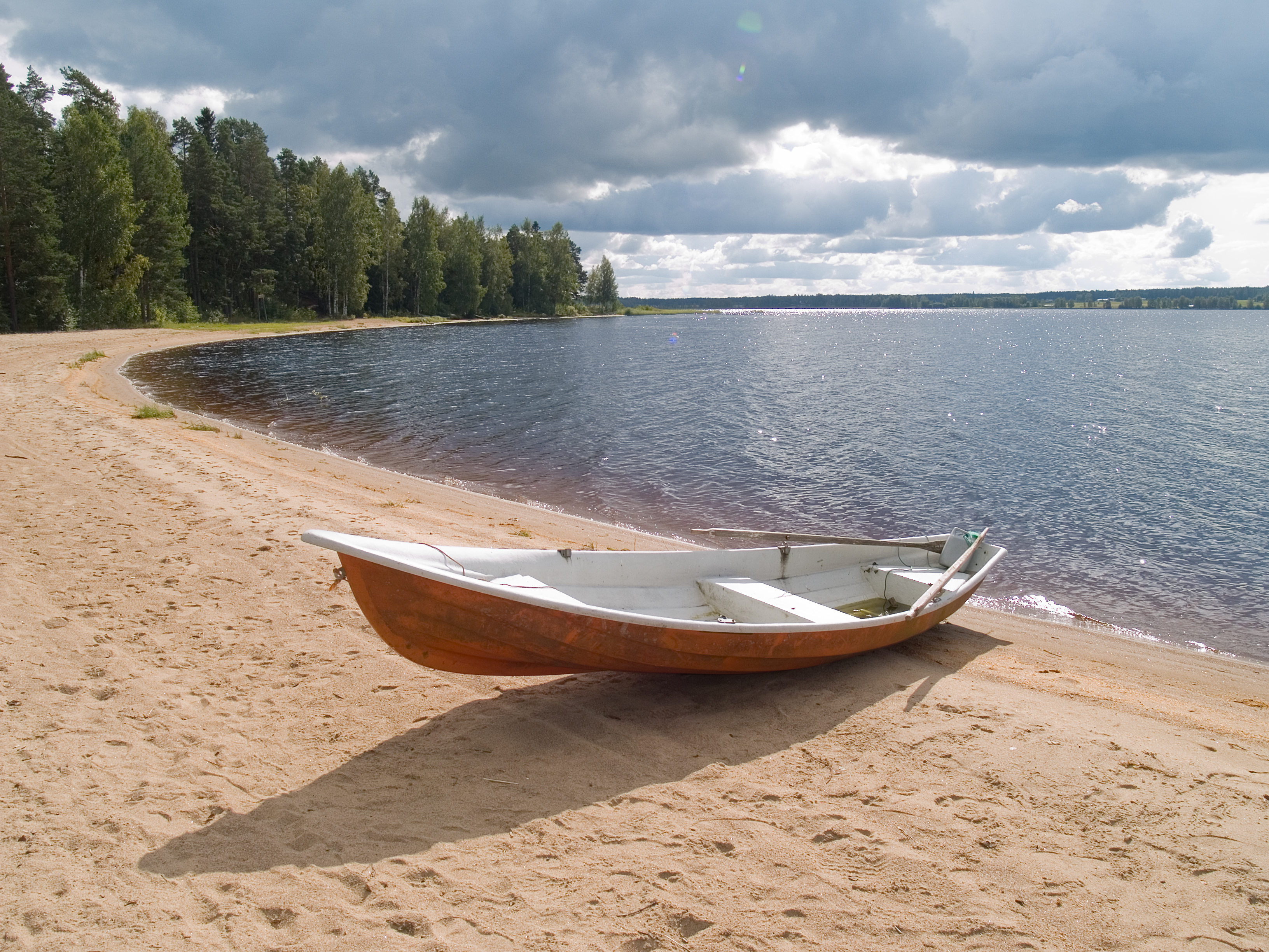 Lake Kuortaneenjärvi in Kuortane, Finland. A beach next to the old church, August 2012.